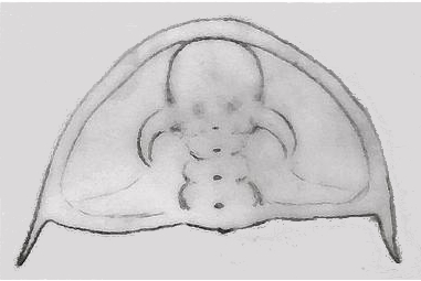 Drawing of a cephalon of Nephrolenellus multinodus